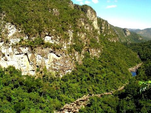 Chapada dos Veadeiros National Park